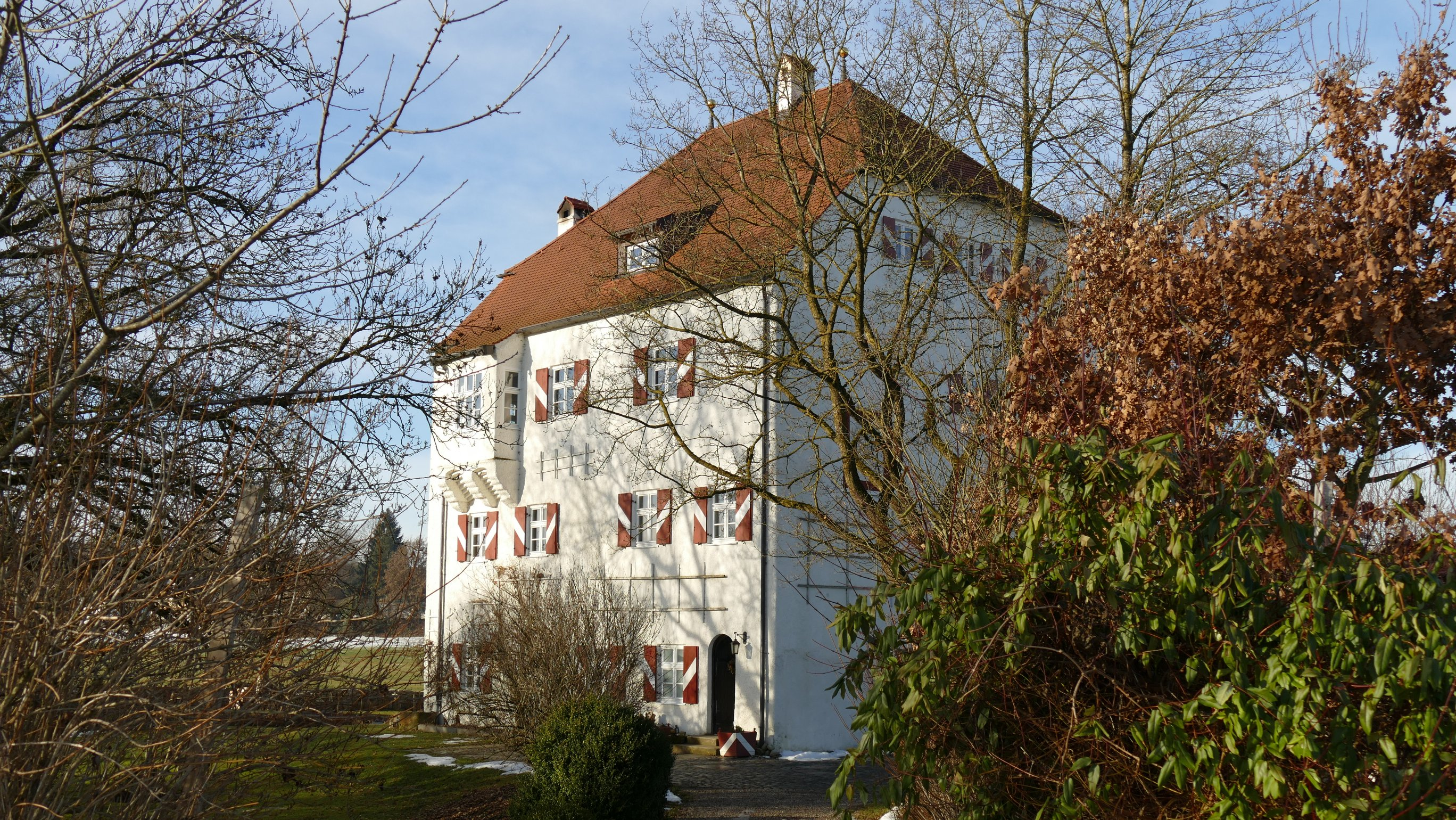 The former moated castle Eichbichl in Jakobneuharting (Landkreis Ebersberg), Upper Bavaria.